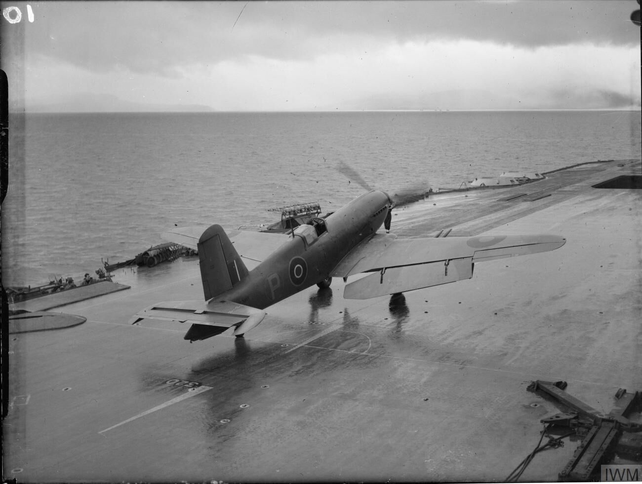 The Royal Navy during the Second World War This view of the Blackburn Firebrand illustrates the huge flaps of the aircraft as it taxies up the flight deck. The Blackburn Firebrand IV, first single seater torpedo fighter ever built in Britain, during aircraft trials held on the Clyde on board the carrier HMS ILLUSTRIOUS. The Firebrand IV is powered by a Bristol Centaurus engine and is armed with four cannons.